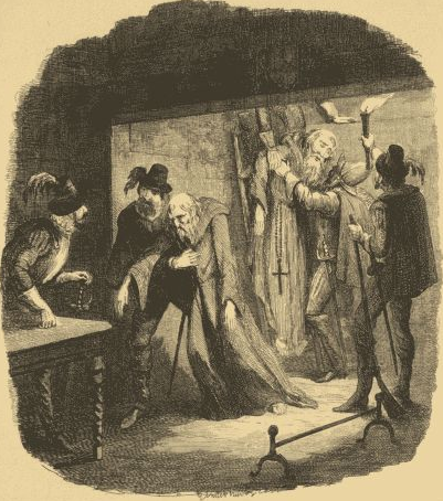 The Discovery of Garnet and Oldcorne at Hendlip. Made by George Cruikshank (1792-1878).